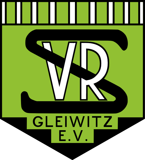 Historical logo of SV Vorwärts-Rasensport Gleiwitz.